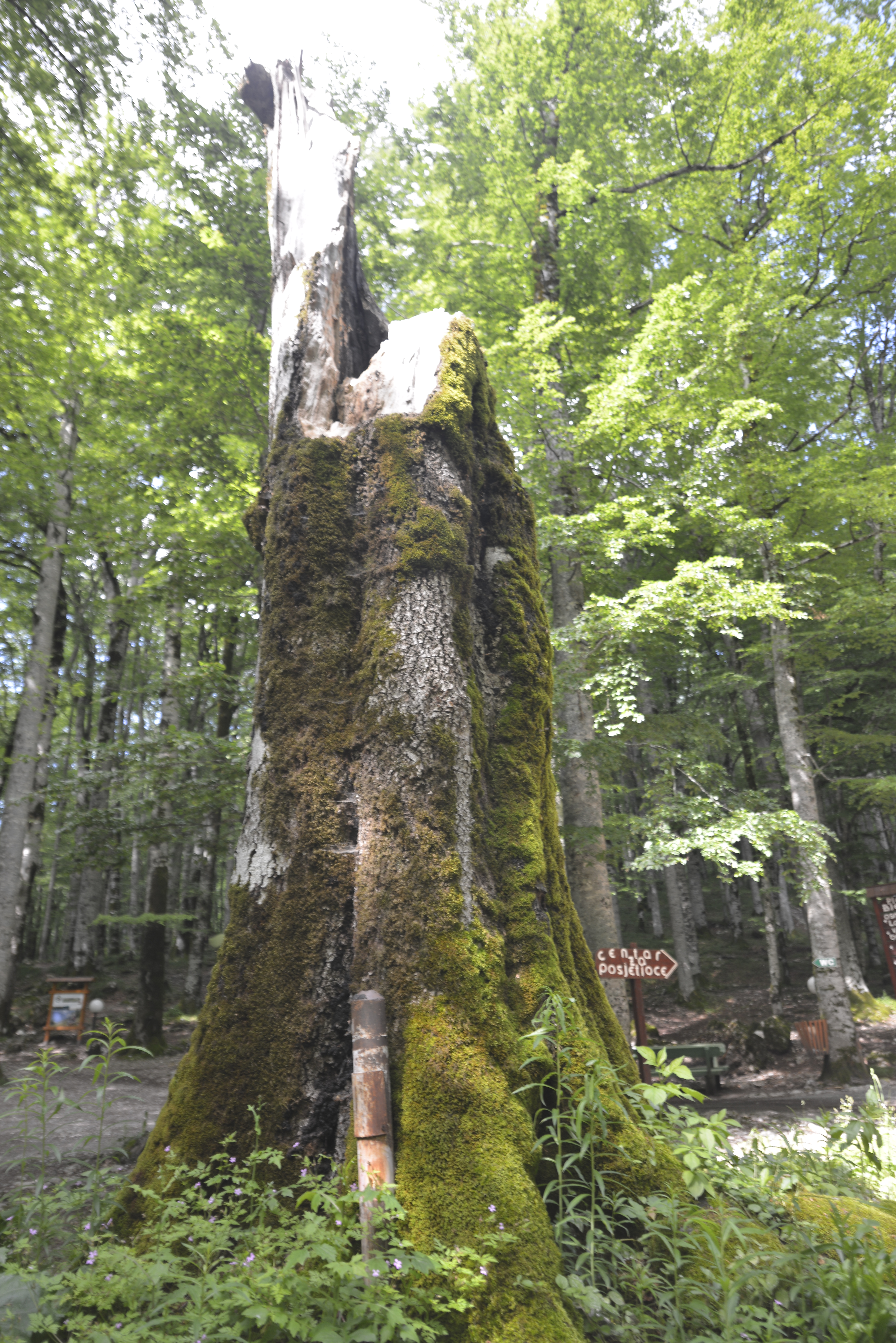 Beauty of National Park Biogradska Gora, Montenegro